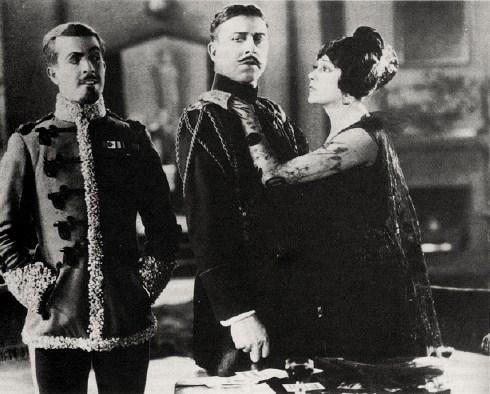 Left to right: Ramon Novarro, Stuart Holmes, and Barbara La Marr in The Prisoner of Zenda (1922) - cropped screenshot